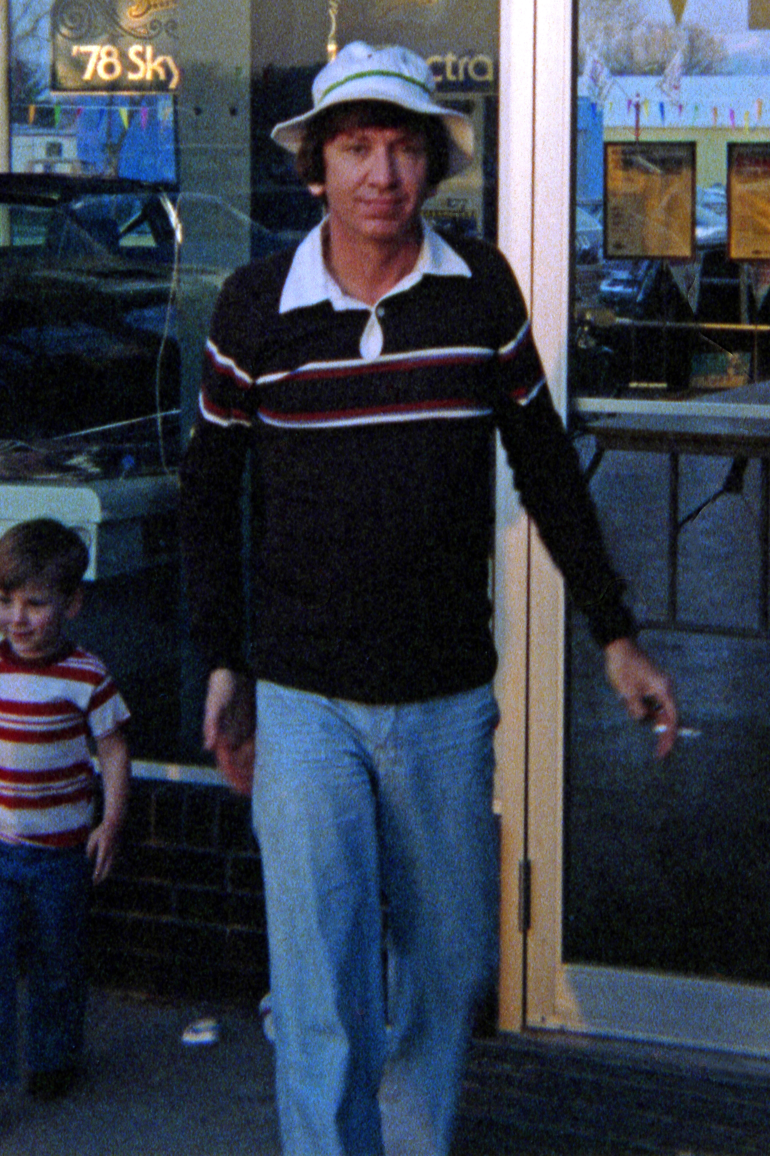 Bob Denver, public appearance in McCleansboro, Illinois.